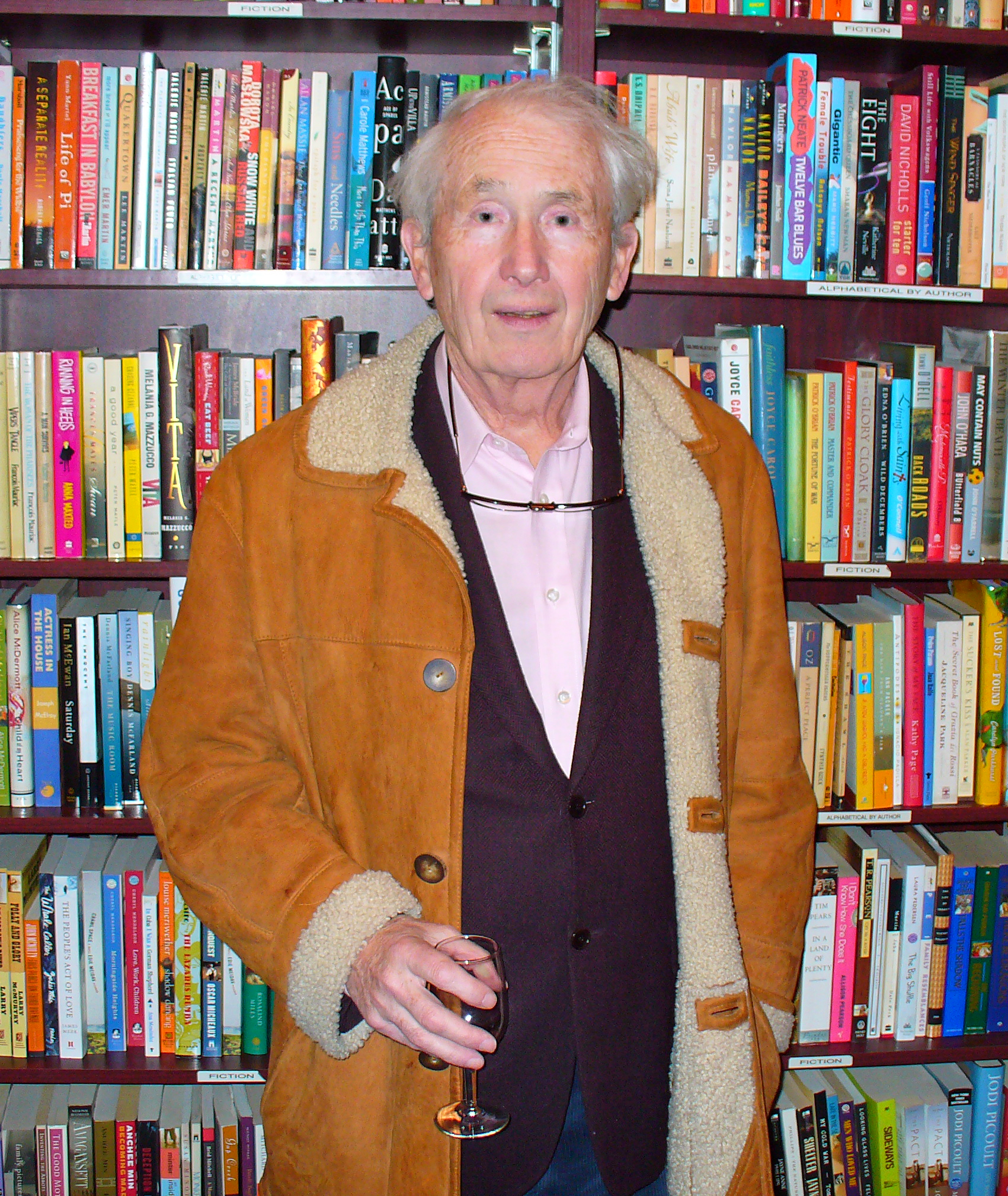 Frank McCourt at New York City's Housing Works bookstore for a tribute to recently-deceased Irish poet Benedict Keily. Photographer's blog post about the death of Frank McCourt and the memory of this photo.The photographer dedicates this portrait to Wikipedia editor Jkelly, who has vastly improved Wikimedia's photography, and made it a welcoming place for photographers to do their creative commons work.